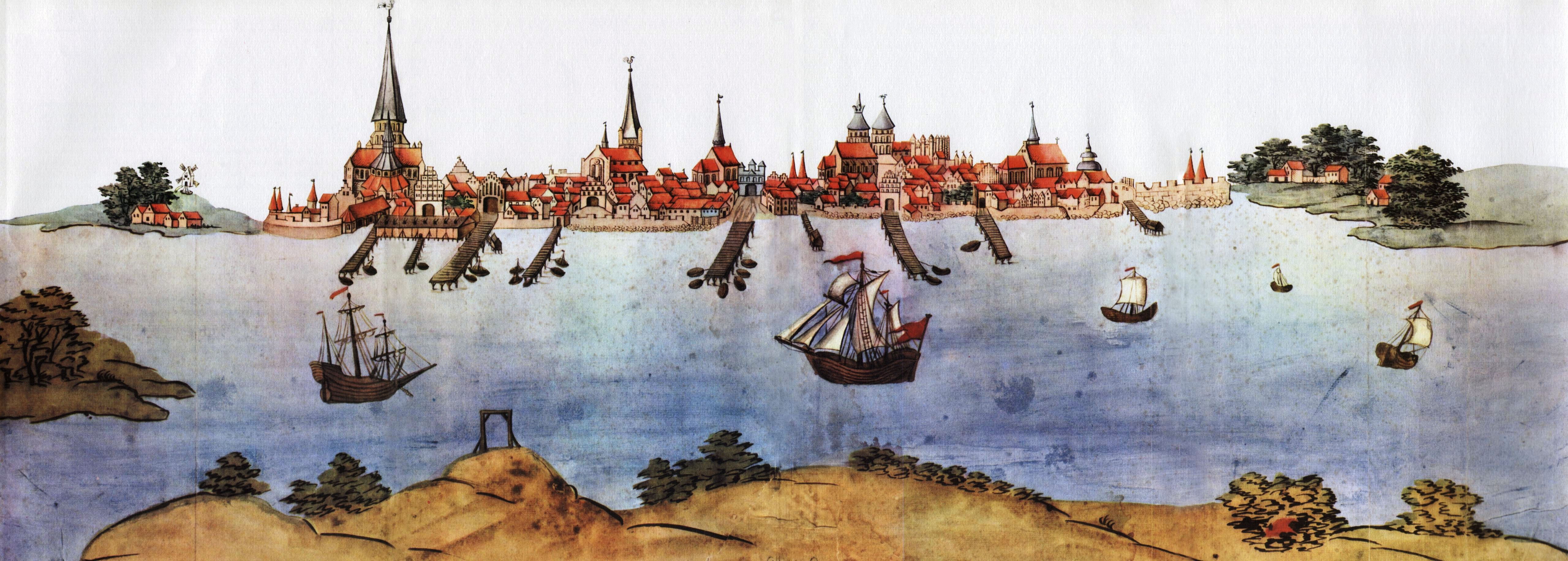 Cityview of Stralsund from the "Stralsunder Bilderhandschrift"